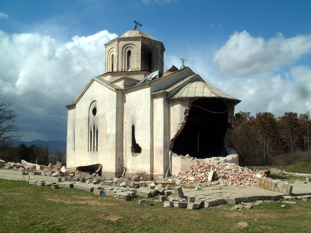 The Church of Saint Elijah (Serbian: Црква светог Илије, Crkva svetog Ilije), also known as Saint Andrew's Church, is а Serbian Orthodox church located on a small hill near the city of Podujevo, It was destroyed by Albanians during the expulsion of Serbs from Kosovo in march 2004.